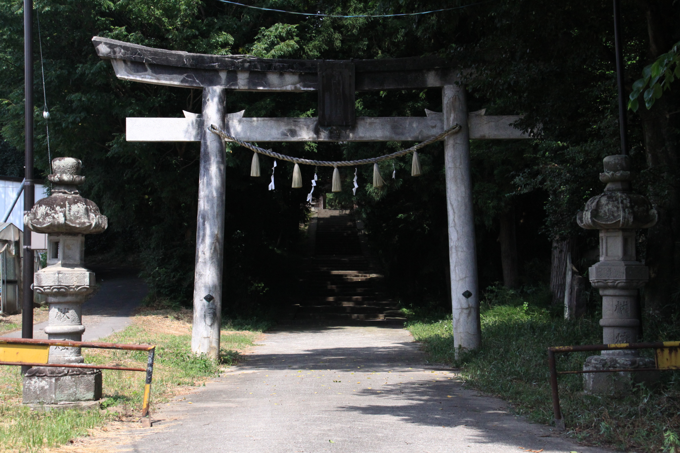 Kattamine jinja Gate